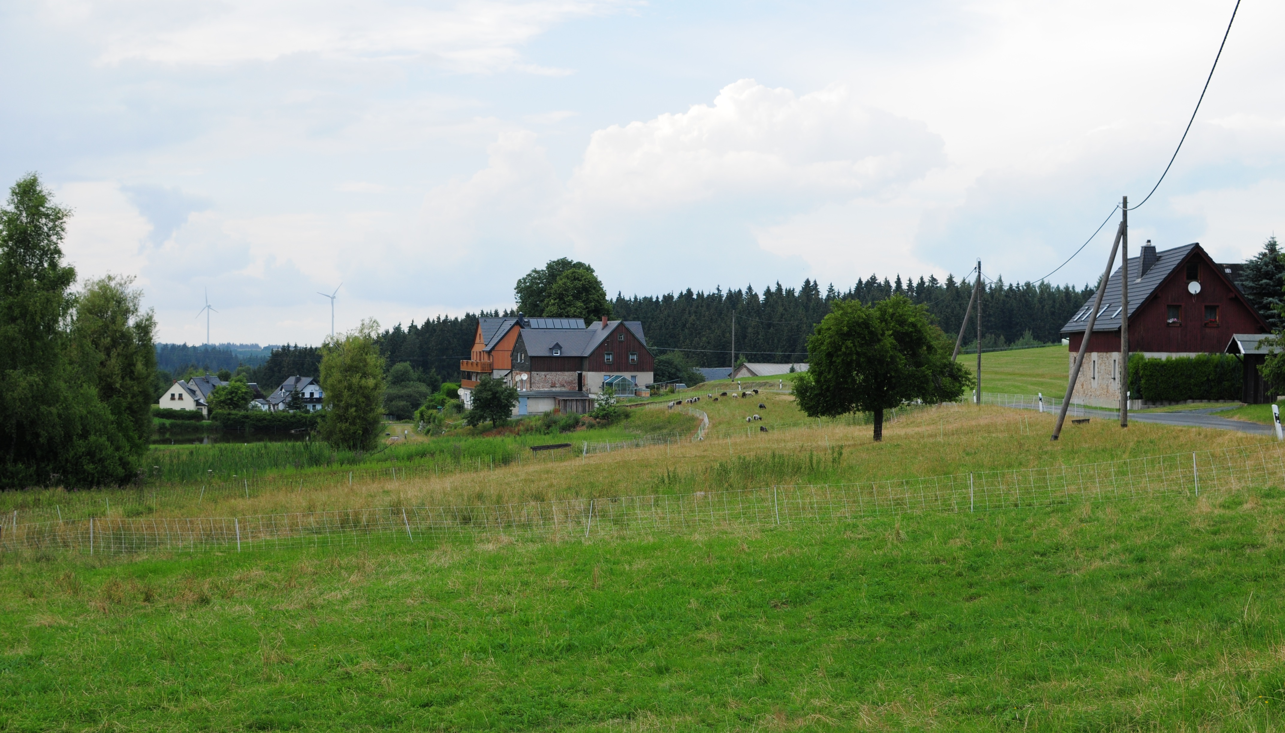 Bärendorf, a village of the municipality of Bad Brambach (district Vogtlandkreis, Free State of Saxony, Germany)